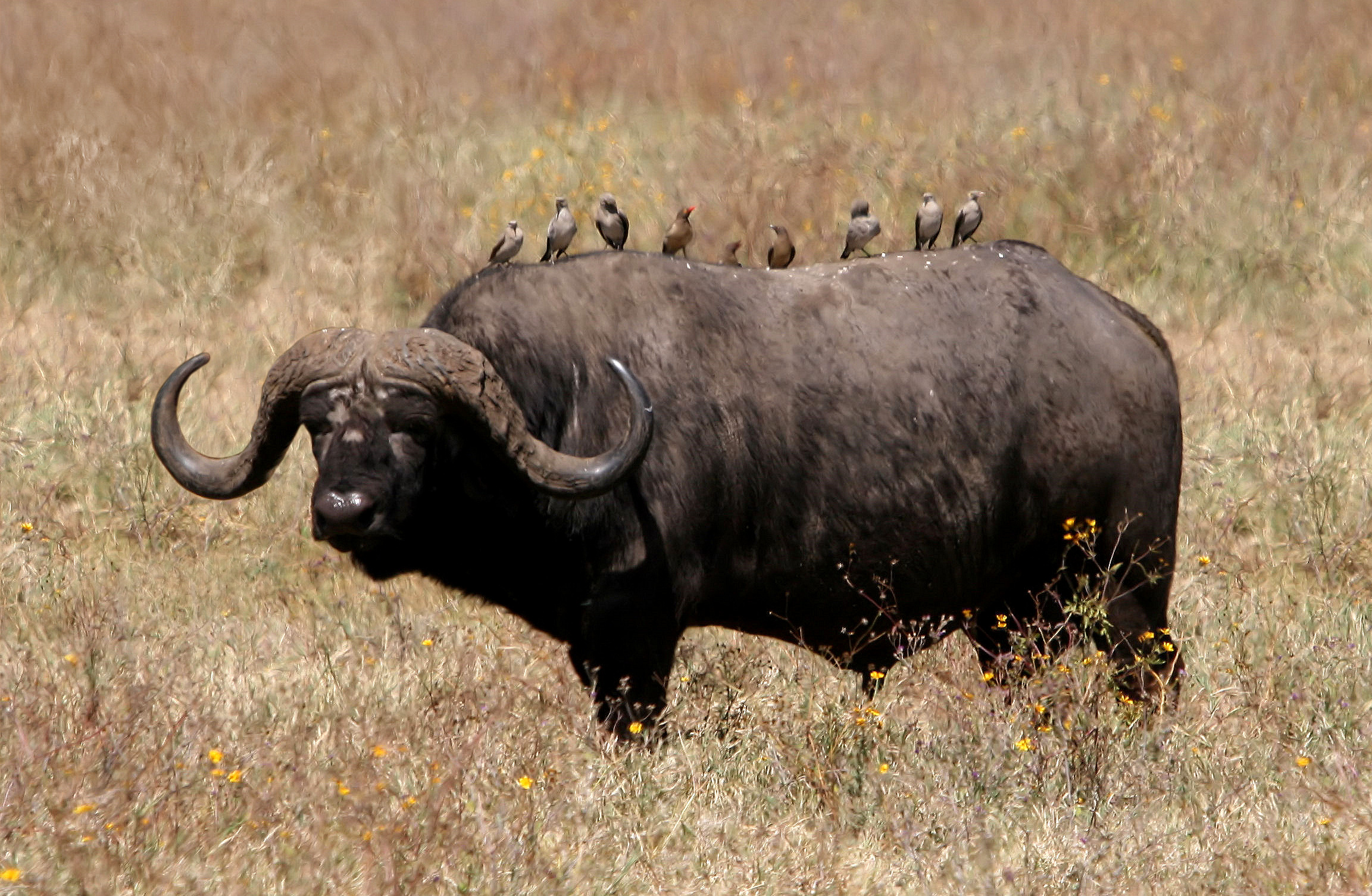 African buffalo (Syncerus caffer), picture taken at Ngorongoro Conservation Area, Tanzania